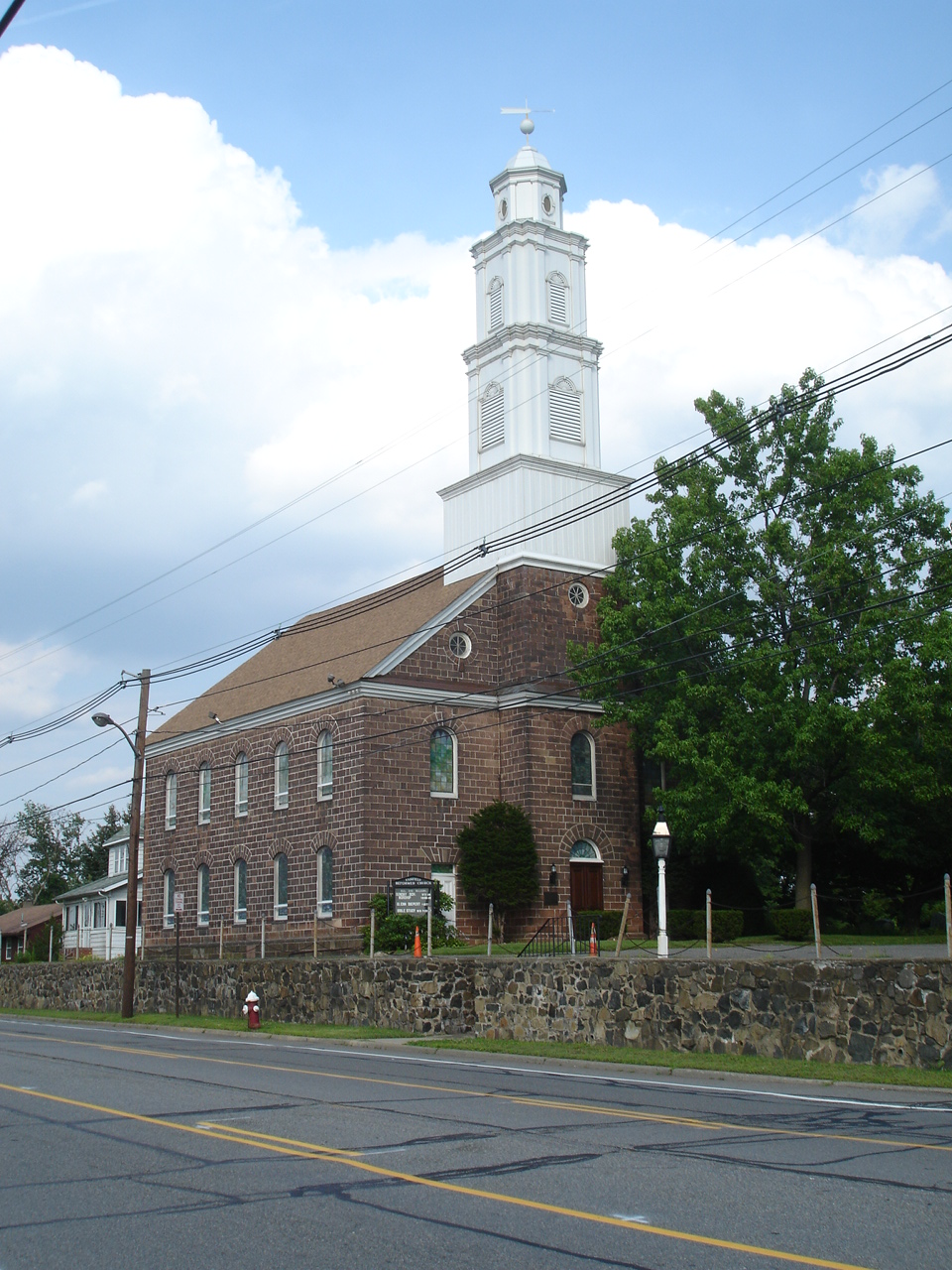 I took this photo of the Fairfield Dutch Reformed Church myself on July 20, 2009